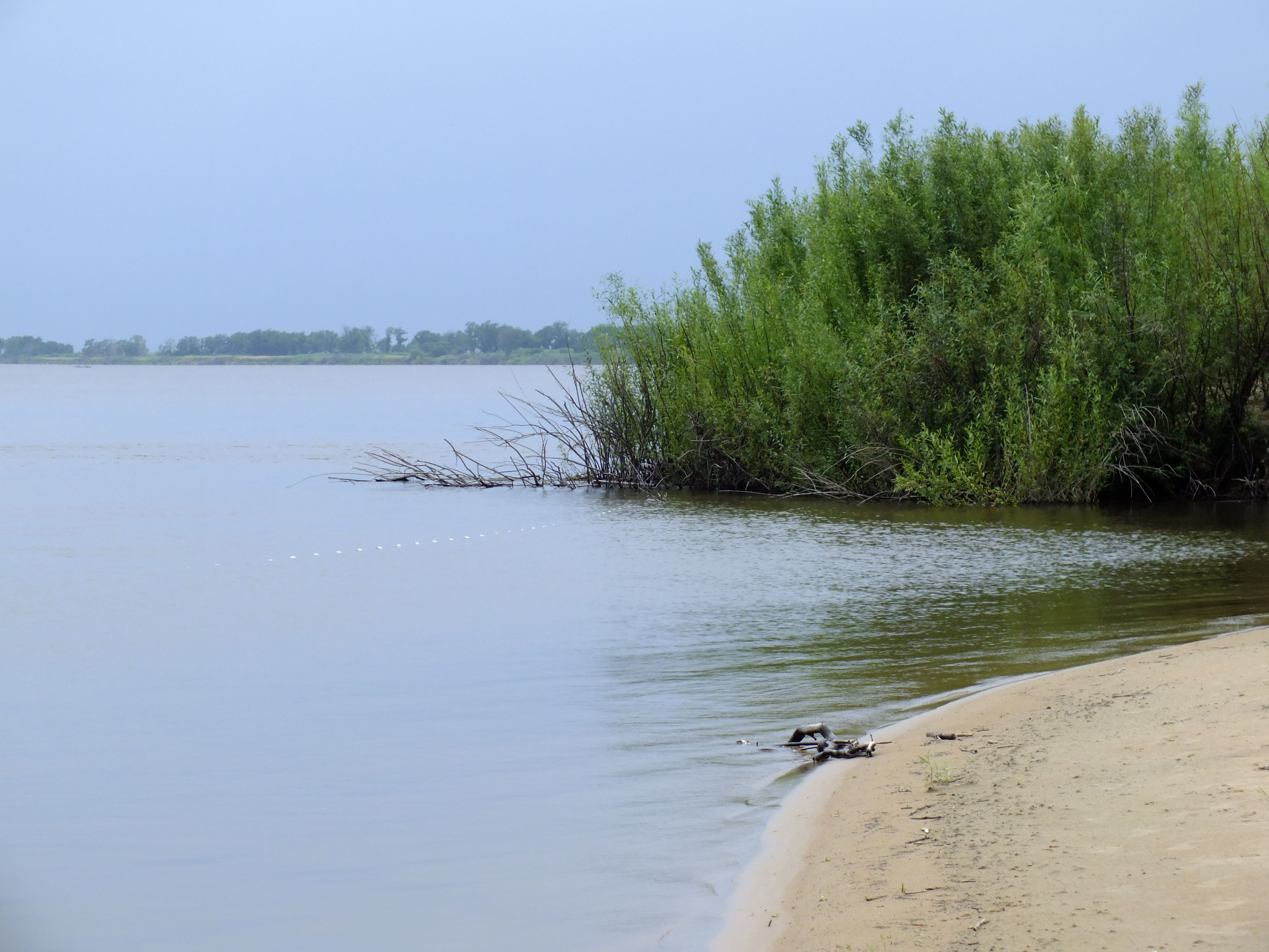 Amur River